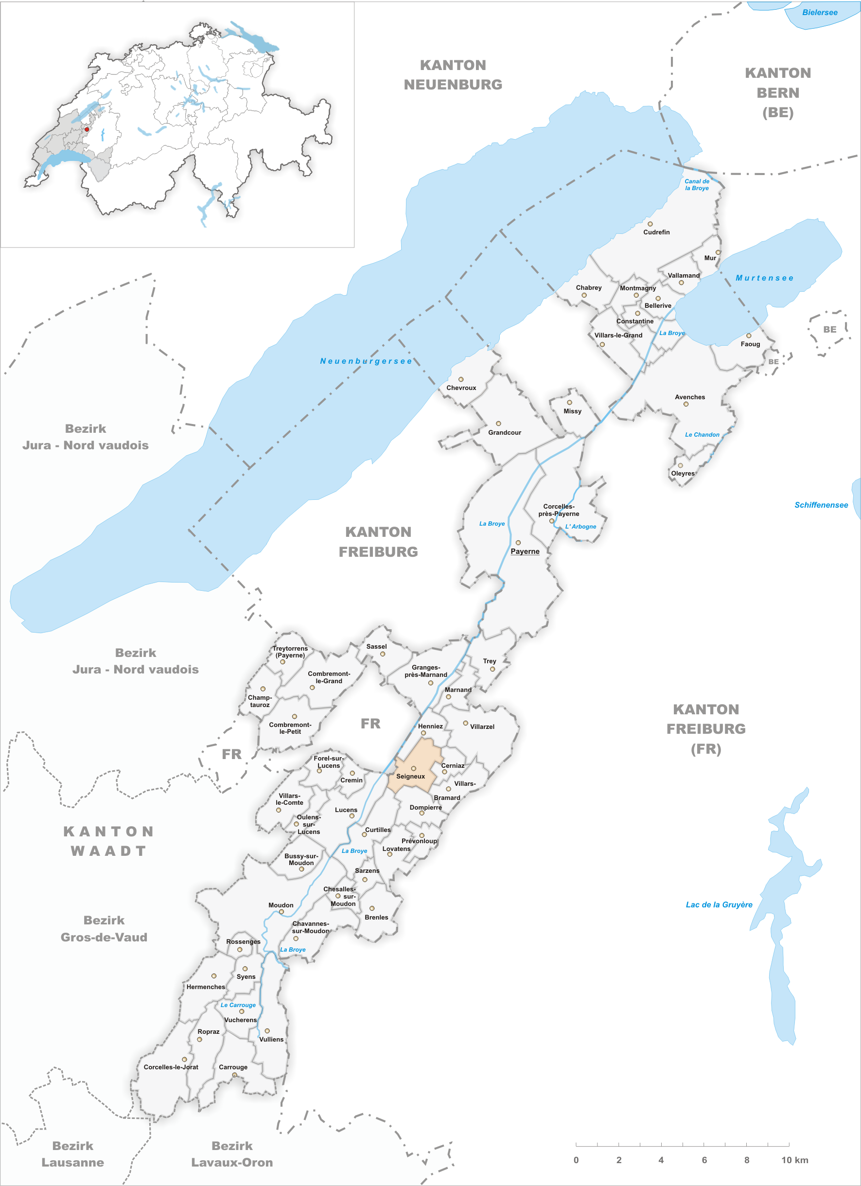 Municipality Seigneux